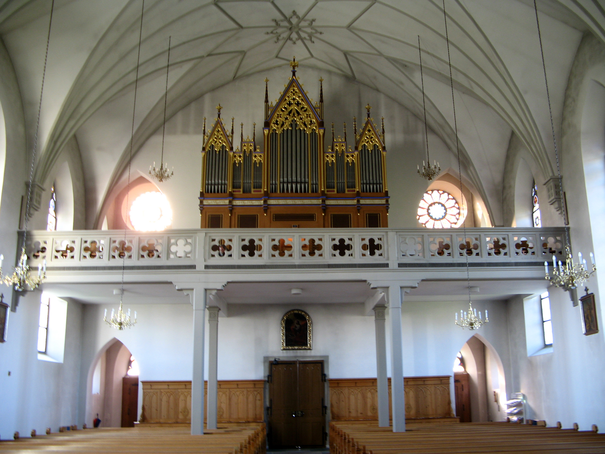 Organ of St George's parish church in Bünzen